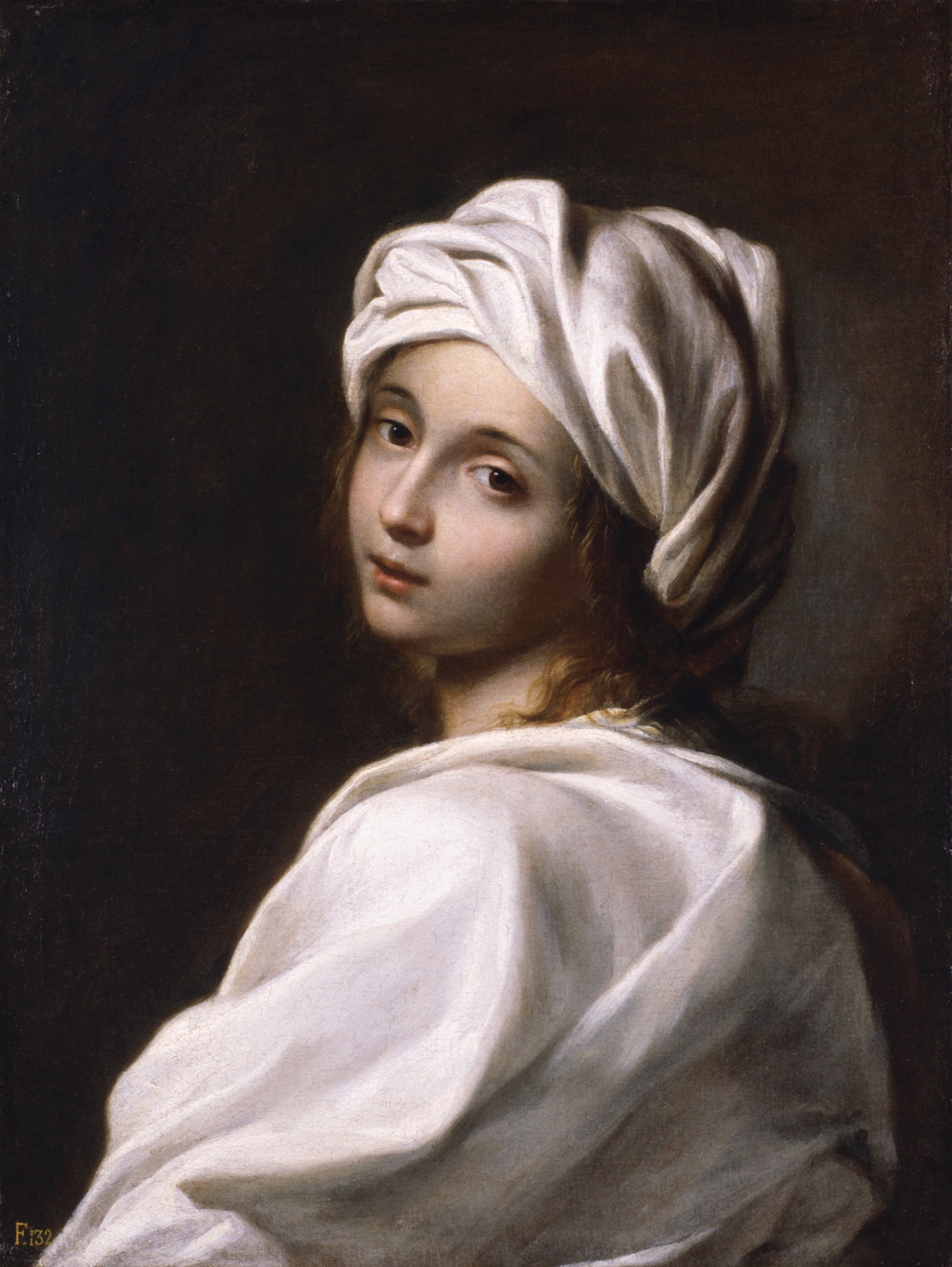 A long historical tradition has identified Beatrice Cenci in this portrait.